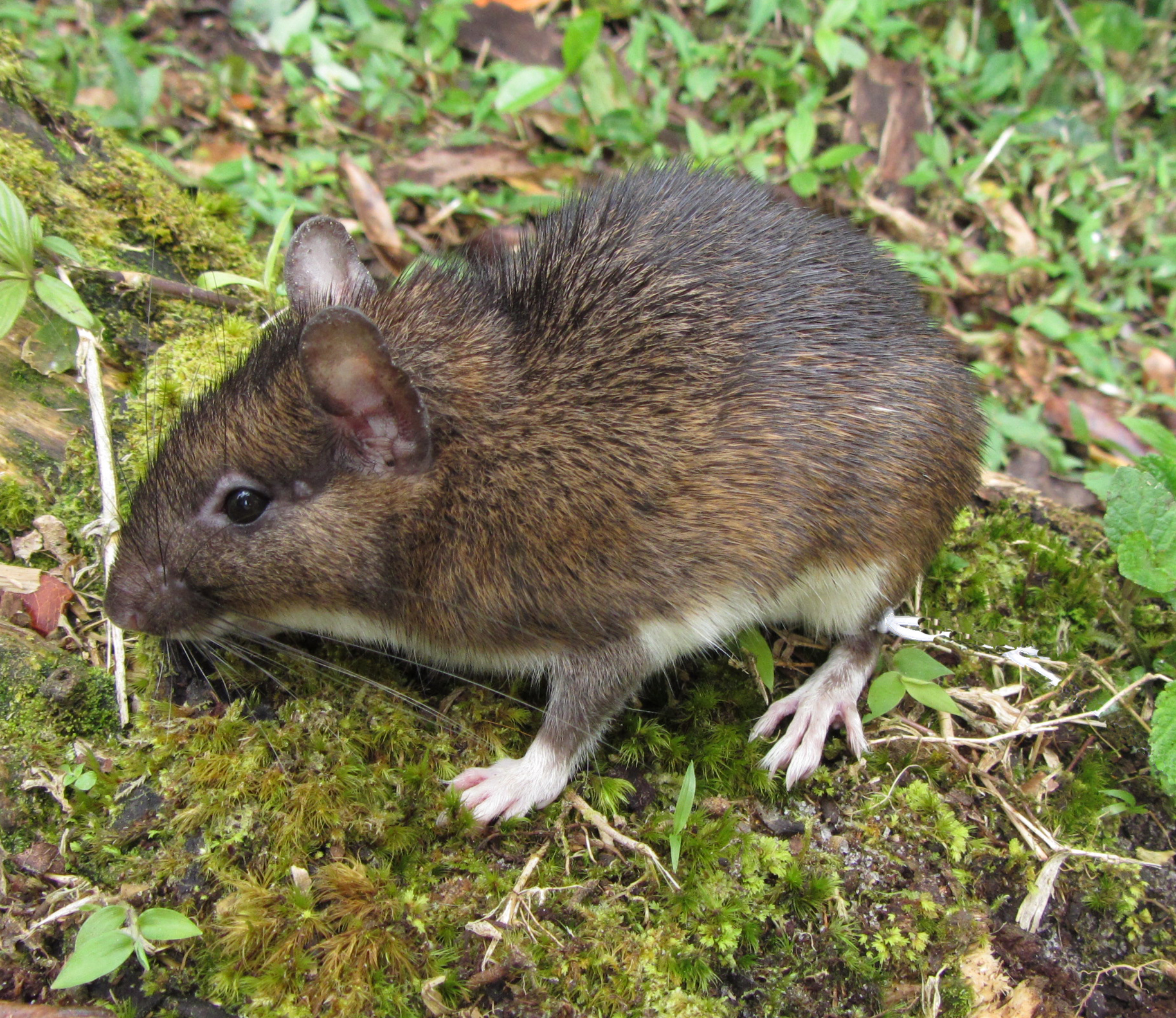 Trinomys sp. at the Estação Ecológica de Bananal,Atlantic Forest of southeastern Brazil